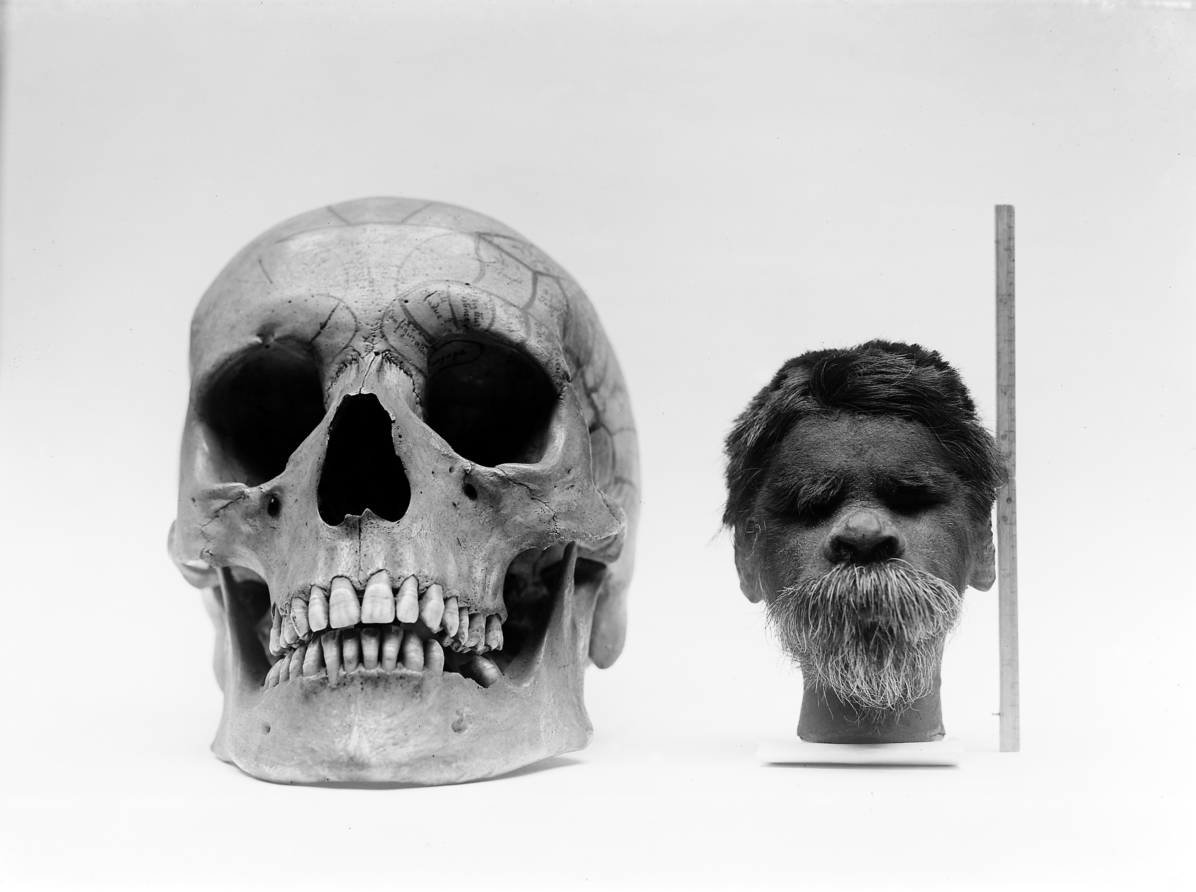 Shrunken head compared with normal human skull. Wellcome Images Keywords: Ethnology; Death; indigenous non-european medicine; mortuary techniques